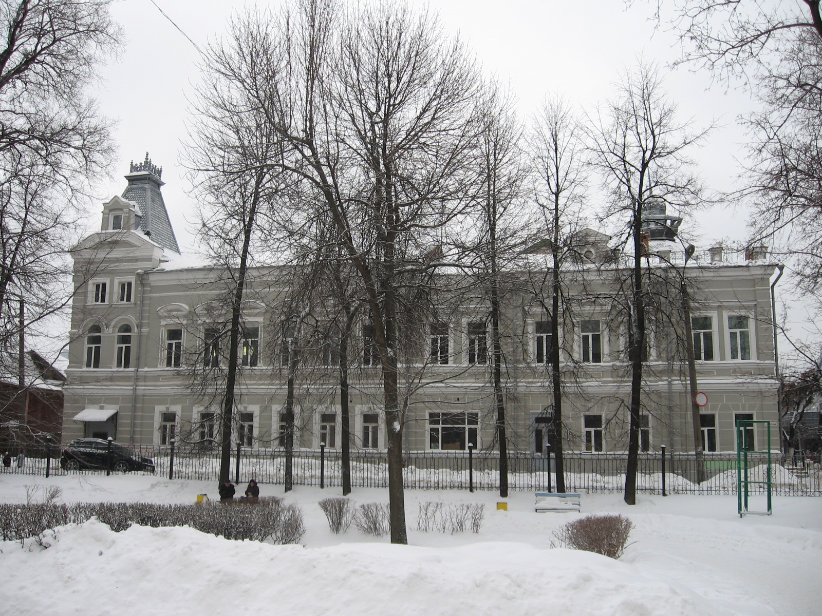 Journal lane (Ryazan)